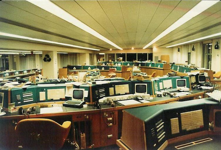 World Money Centre - combined trading floor for the foreign exchange and international deposit & loan trading activities of National Wesminster Bank and International Westminster Bank